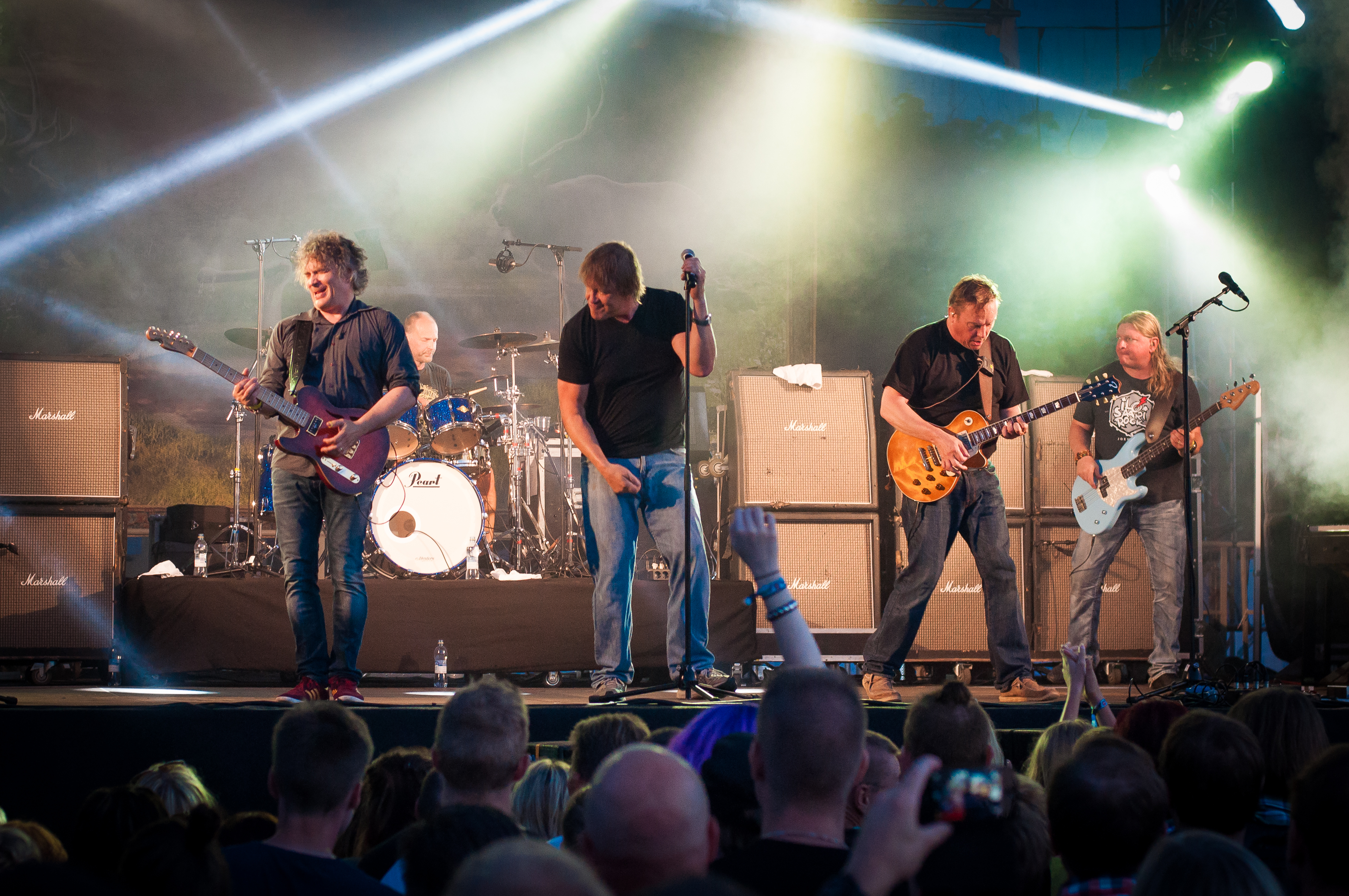 Finnish rock band Eppu Normaali performing at the 2014 Rakuuna Rock festival in Lappeenranta, Finland.